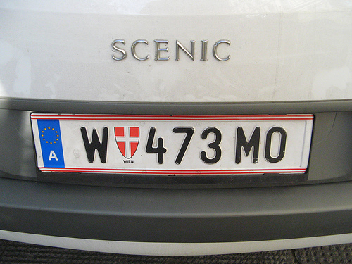 Austrian Car number plate